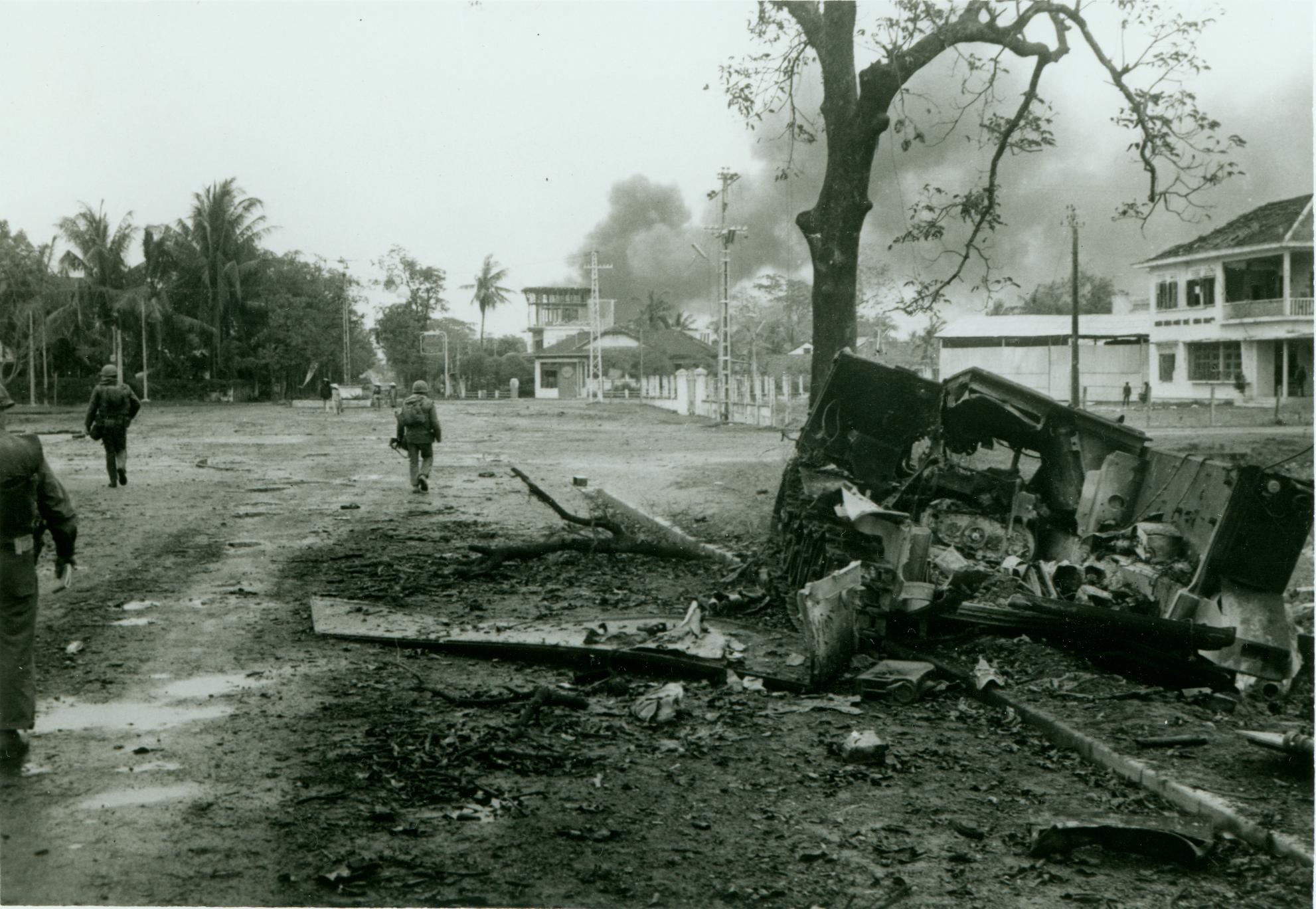 "Mopping Up: Marines move cautiously through the streets of Hue as the mop up the remaining pockets of enemy resistance near the end of the 25 day battle to wrest the ancient city from the North Vietnamese and Viet Cong during last year’s Tet fighting (official USMC photo by Captain T. Cummins)." From the Jonathan Abel Collection (COLL/3611), Marine Corps Archives & Special Collections. OFFICIAL USMC PHOTOGRAPH